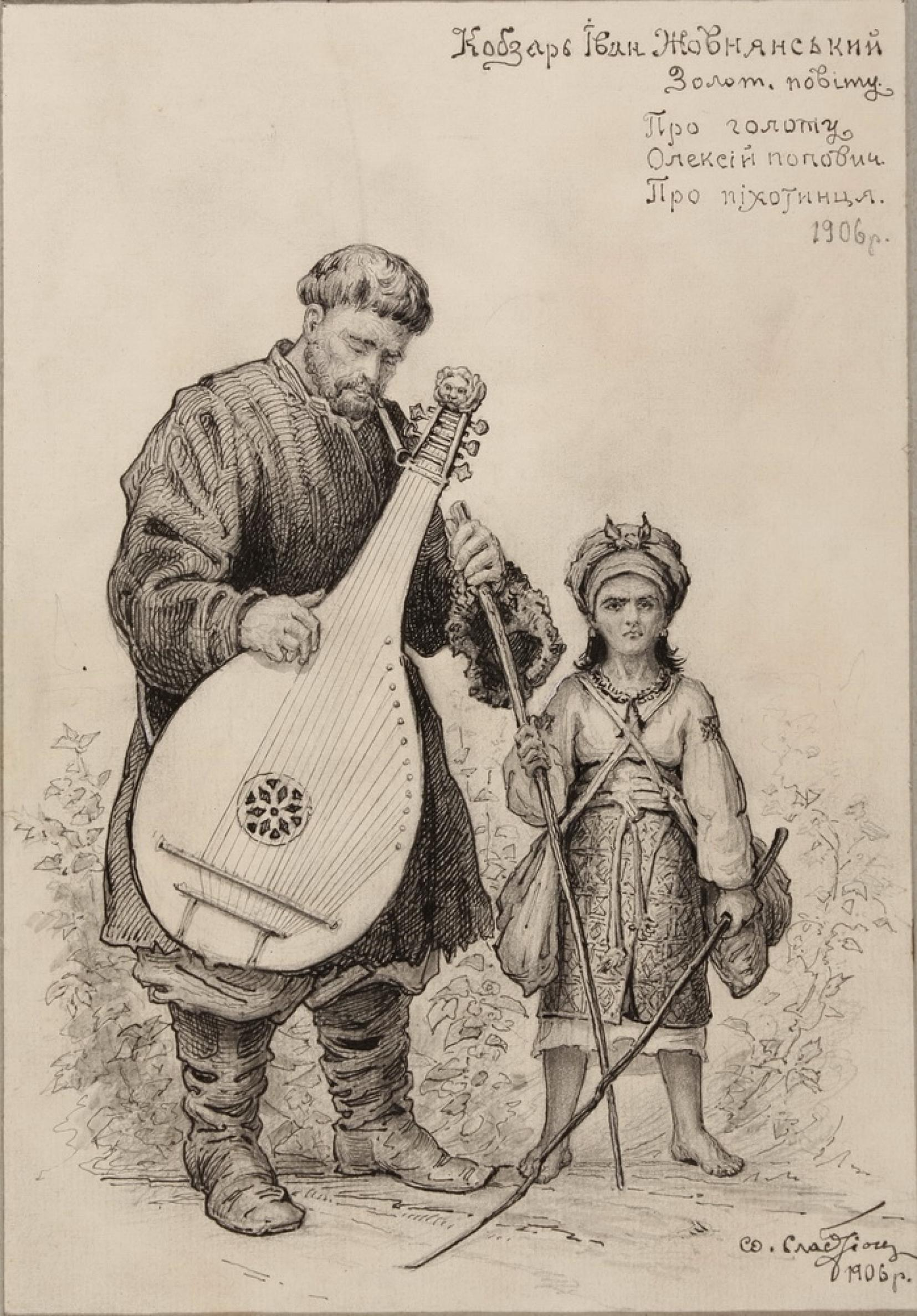 Blind kobzar Ivan Zhovnianskyi with his guide girl